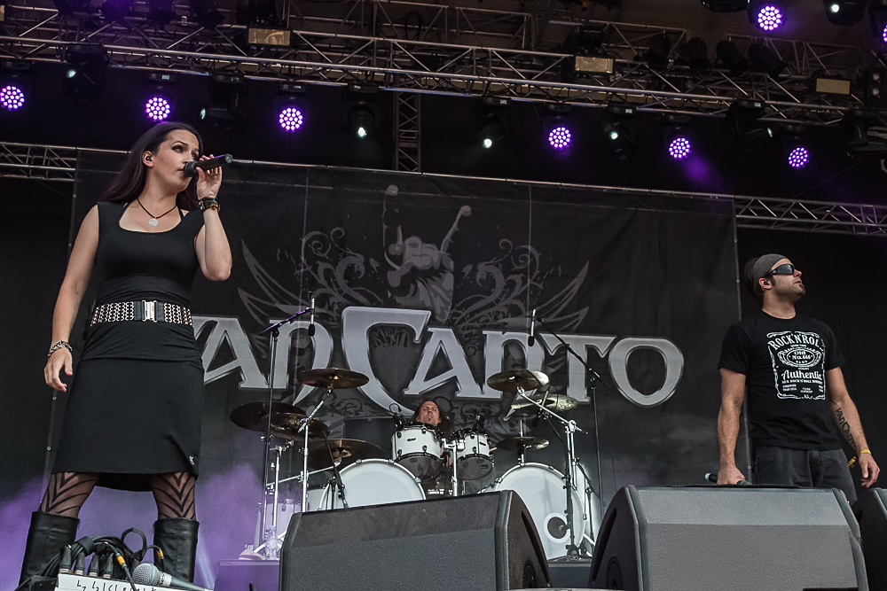 Van Canto - Rock Harz 2013 - 13-07-2013